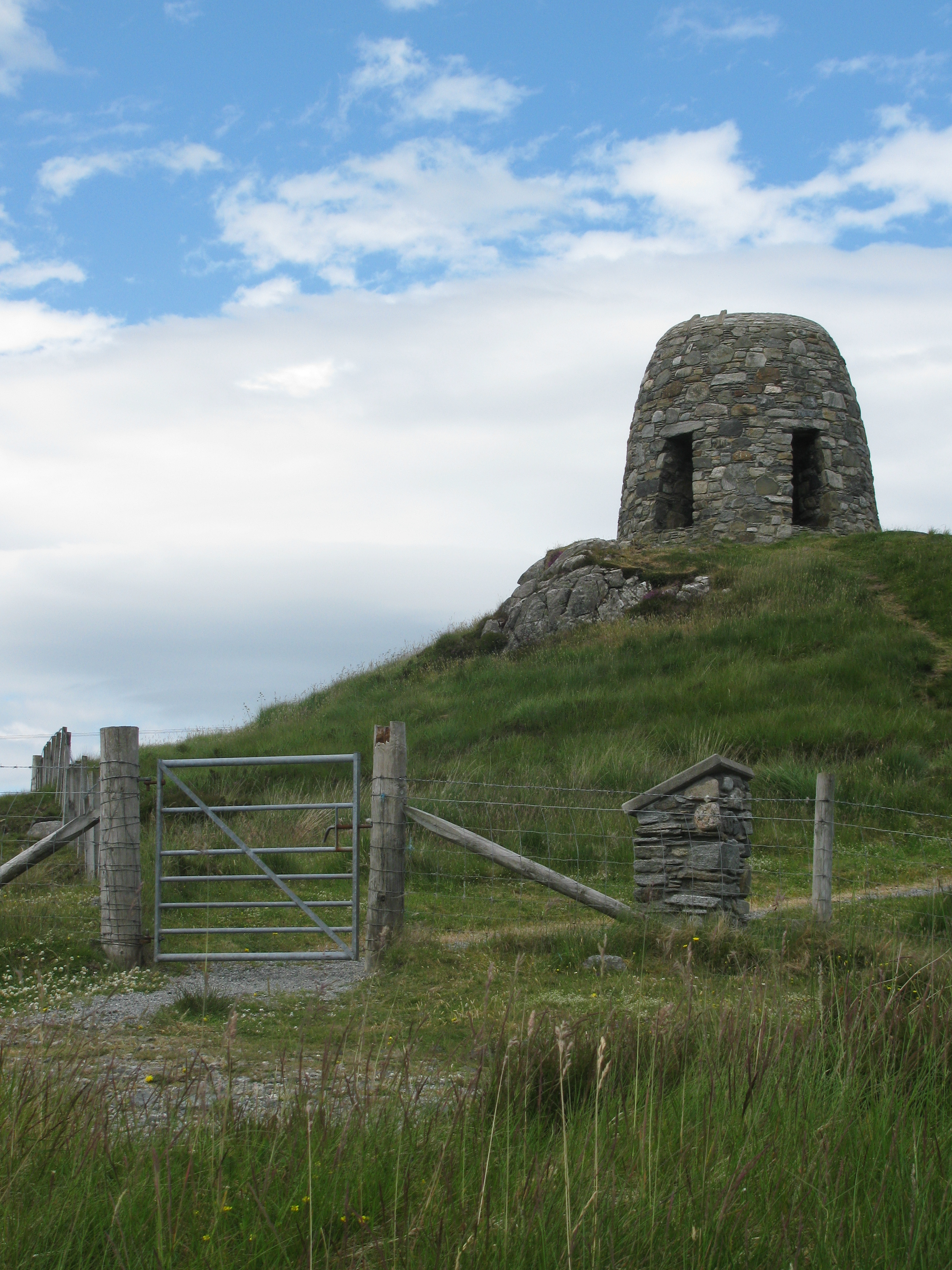 This cairn commemorates the events of November 22nd, 1886, when local crofters entered the peninsula of Park, Lewis, which had been converted into a deer hunting area, which had led to the dispossession of numerous locals, and killed a large number of deer to "focus public attention on the poverty and injustice they suffered under the oppression of heartless landlords who dispossessed their forebearers from over thirty villages in Park." (quoted from the plate at the monument. Further information available.)